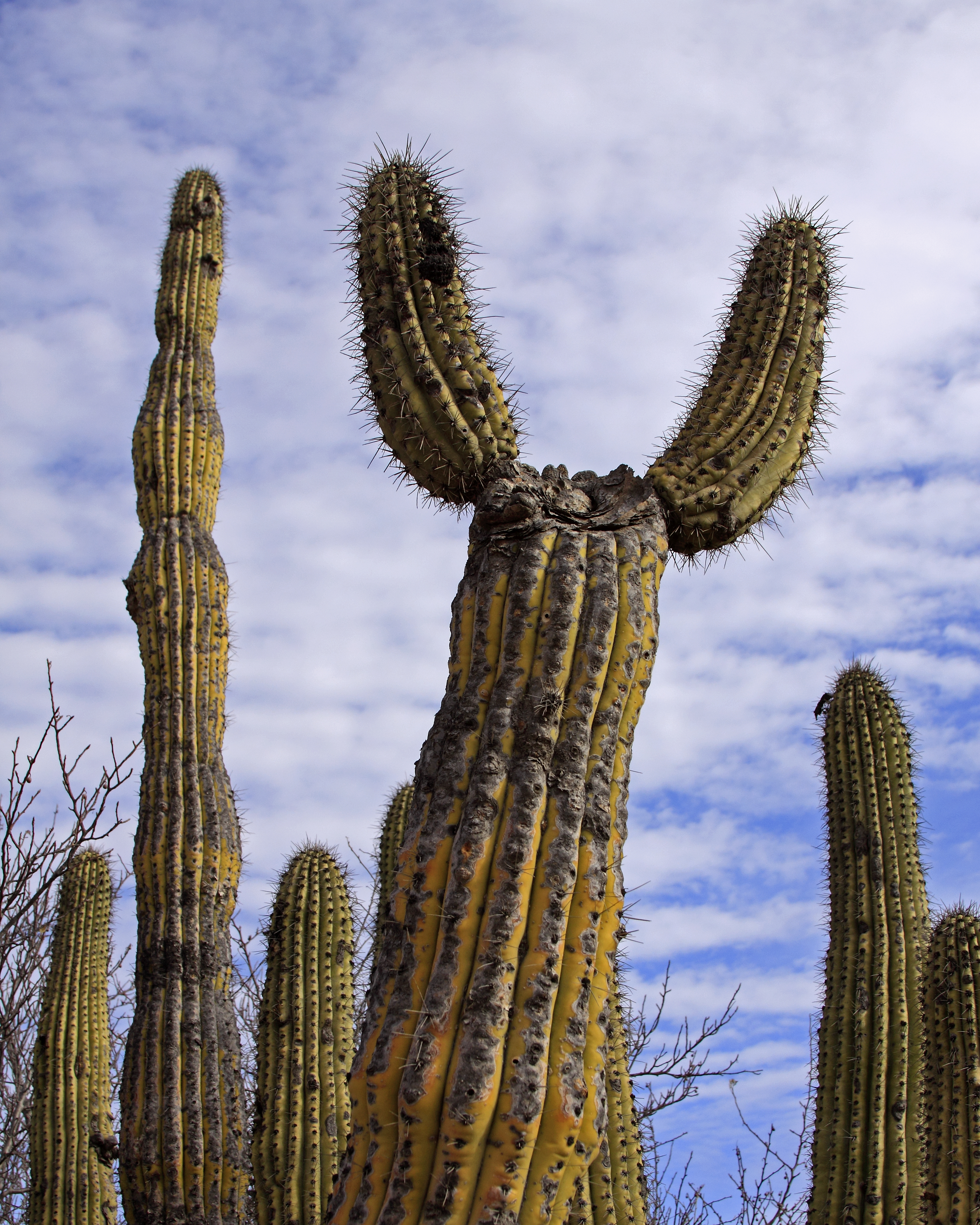 Pitaya (Stenocereus thurberi) from the Sonora Desert, Mexico.